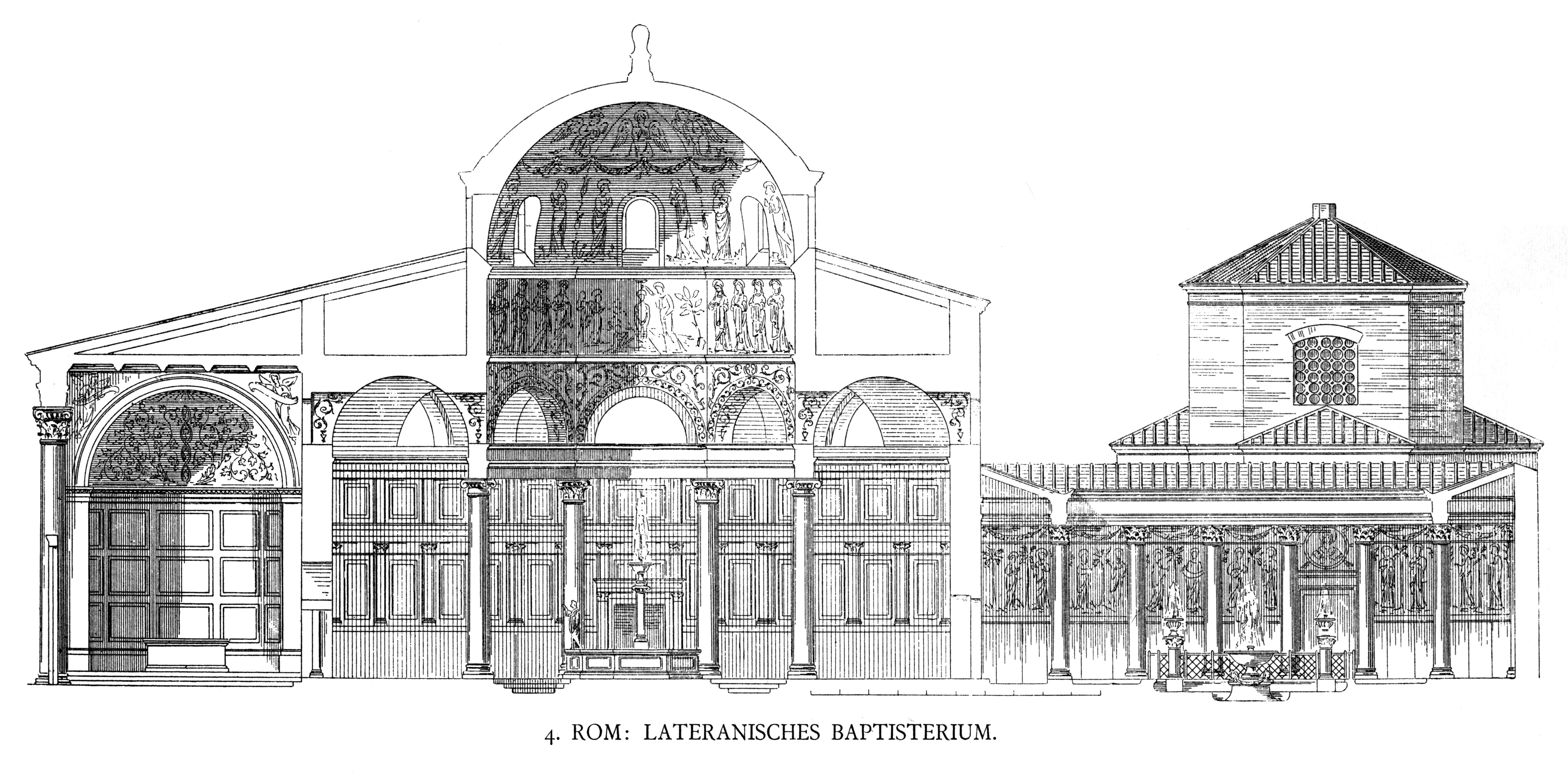 Rome, Lateran, Battisterio. Cross section